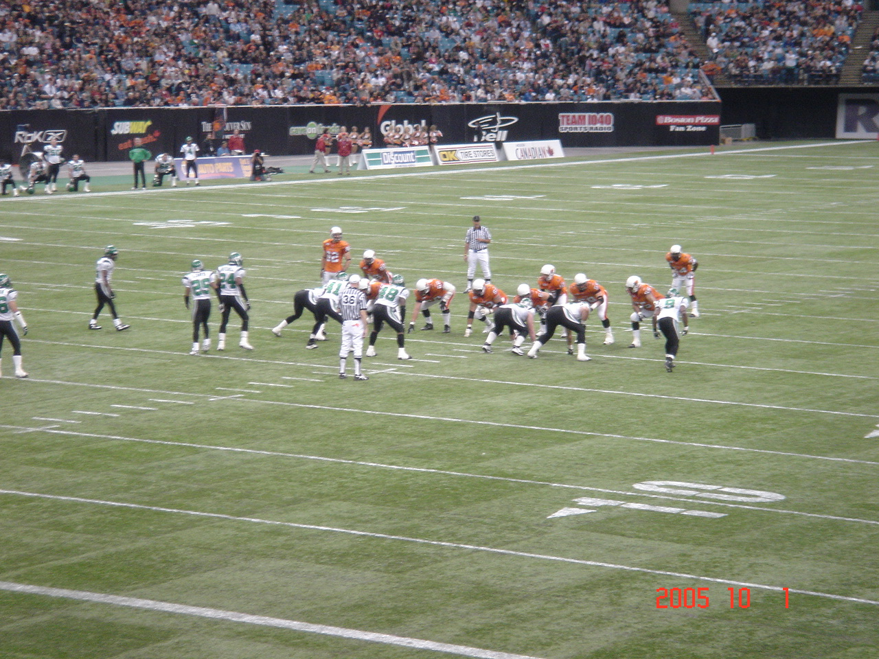 BC Lions quarterback Dave Dickenson calls out a play at the line of scrimmage in a game against the Saskatchewan Roughriders, October 1, 2005 at BC Place Stadium, Vancouver, British Columbia, Canada.DSC02682